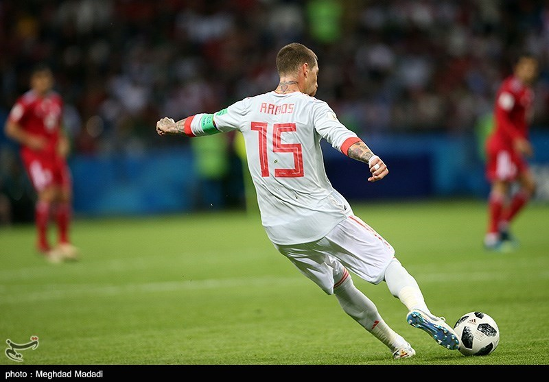 Iran and Spain match at the FIFA World Cup 2018 in Russia.